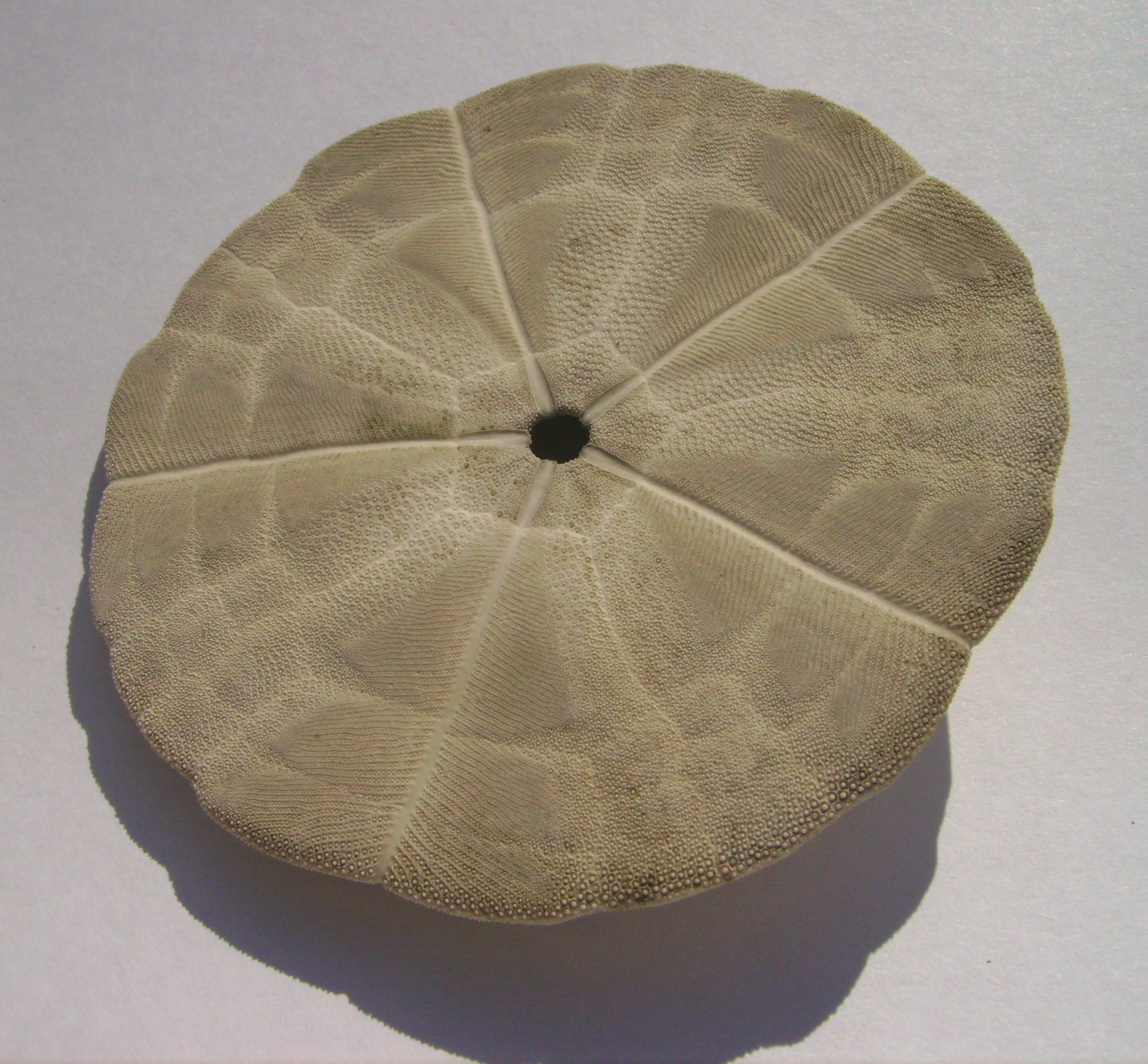 Arachnoides zelandiae (snapper biscuit) test (underside), from Auckland, New Zealand. This work has been released into the public domain by its author, Graham Bould. This applies worldwide.In some countries this may not be legally possible; if so:Graham Bould grants anyone the right to use this work for any purpose, without any conditions, unless such conditions are required by law.